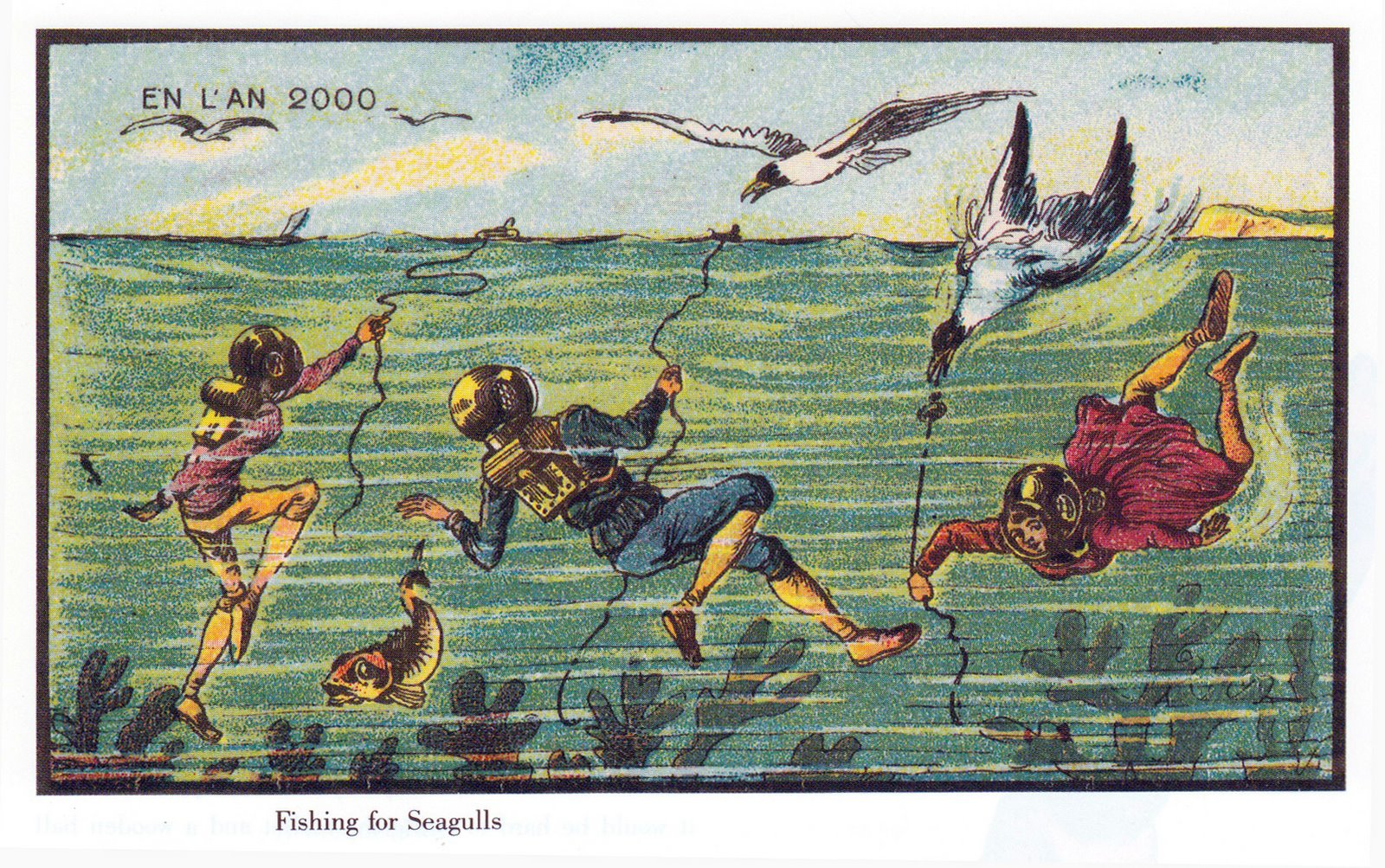 France in 2000 year (XXI century). Fishing for seagulls. France, paper card by Jean-Marc Côté.